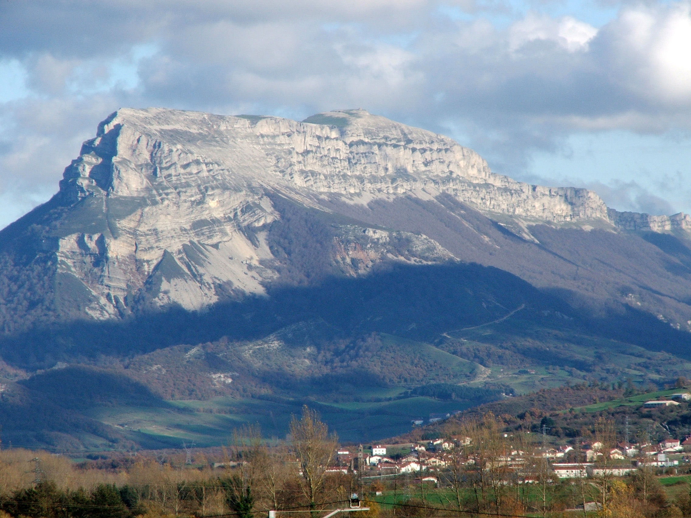 Beriain mount seen from Altsasu, Basque Country.